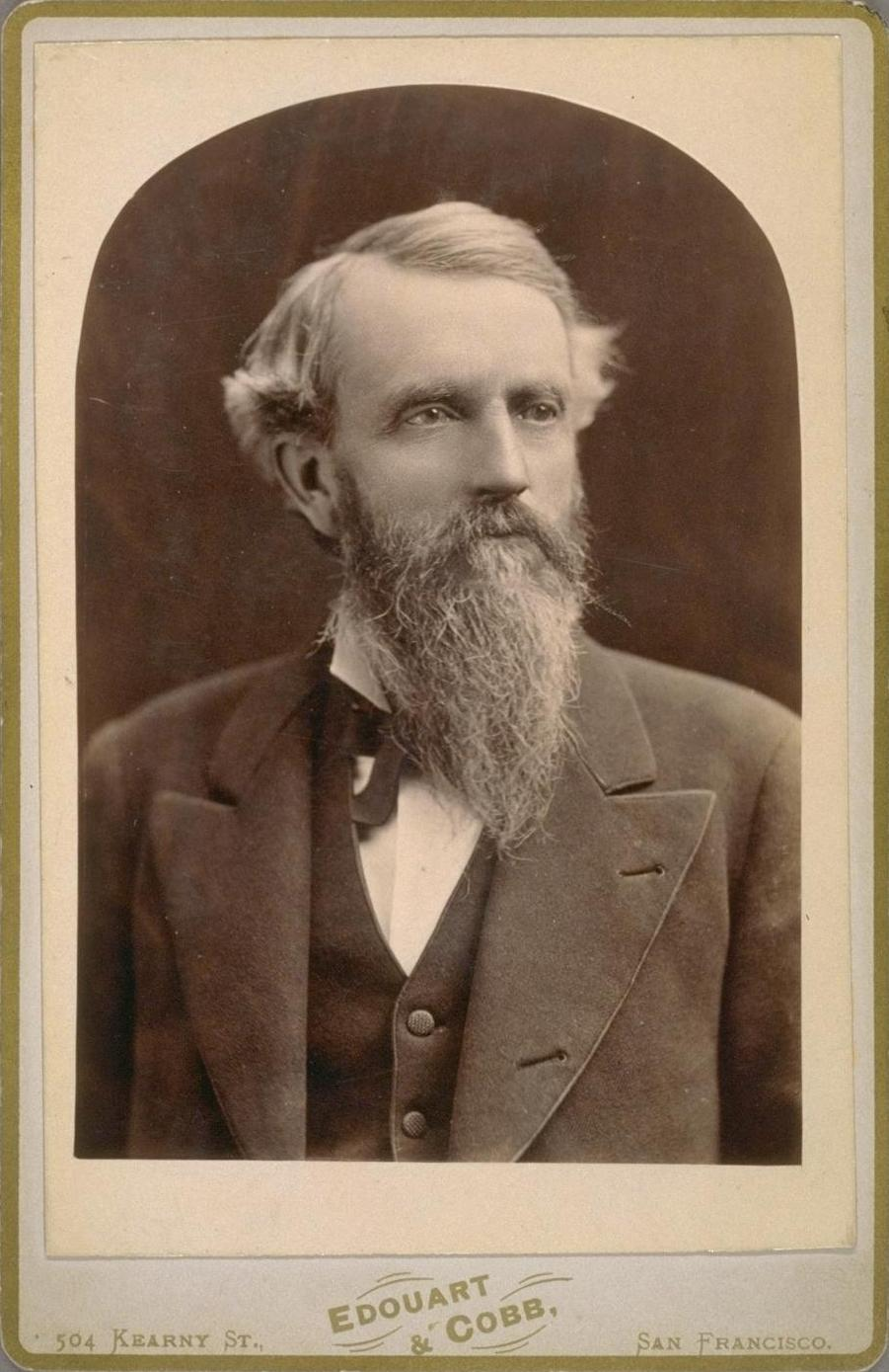 George Hearst (1820-1891), California Senator (1886-1891) and father of William Randolph Hearst.